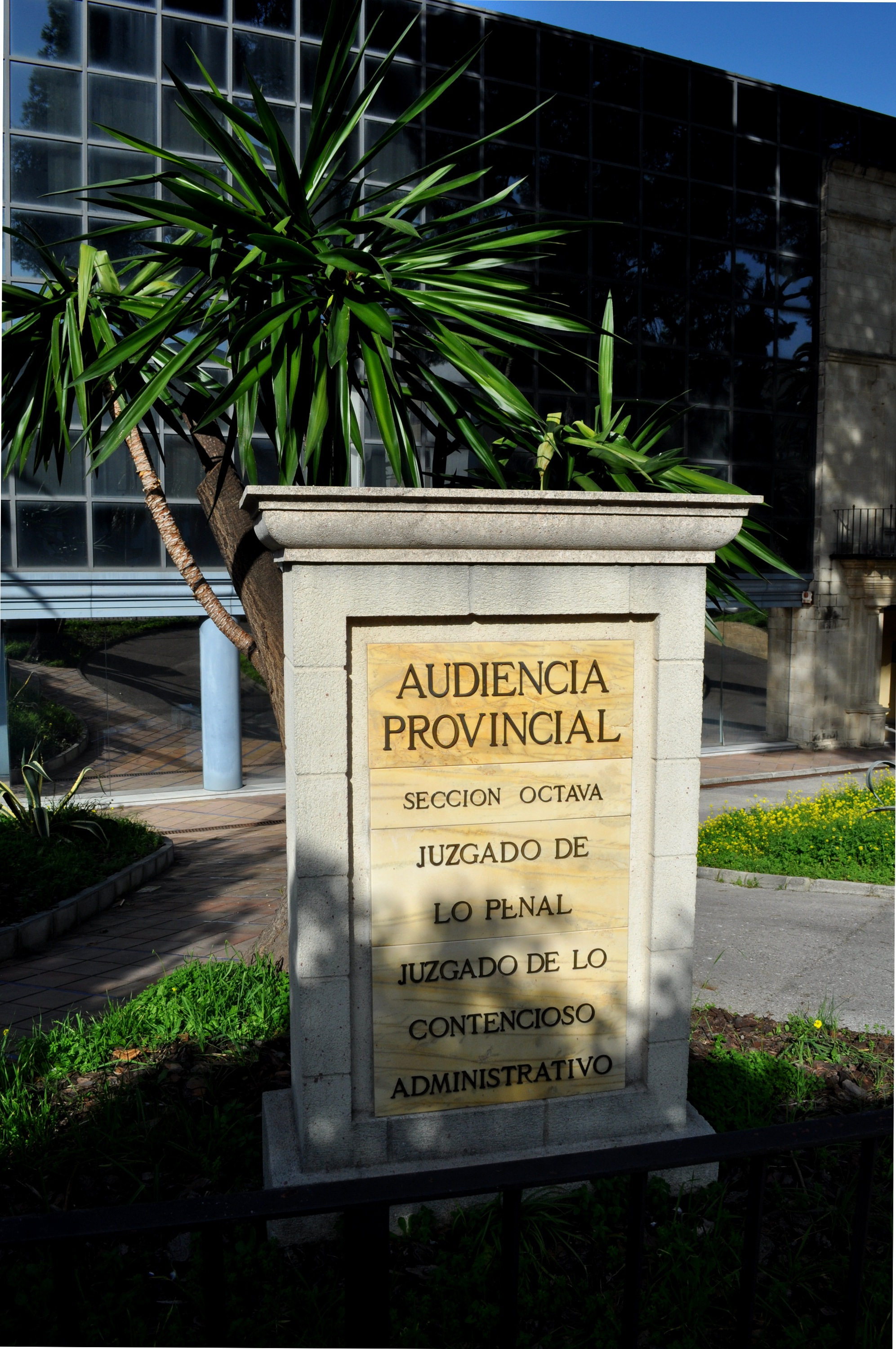 Province Court, Alcalde Alvaro Domecq St. Jerez de la Frontera